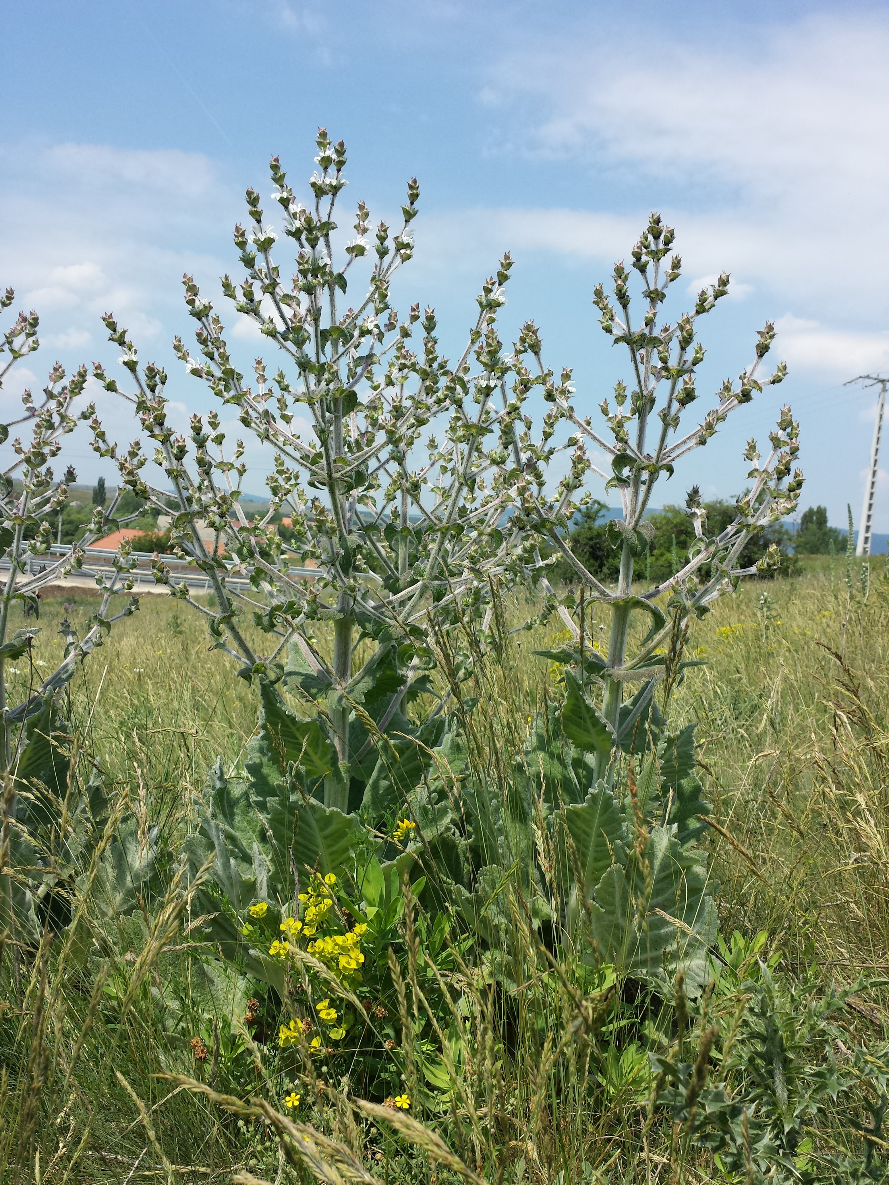 Habitus Taxonym: Salvia aethiopis ss Fischer et al. EfÖLS 2008 ISBN 978-3-85474-187-9; det. Gergely Király 2015-06-07 Location: Veszprém County, Hungary - ca. 200 m a.s.l. Habitat: dry grassland